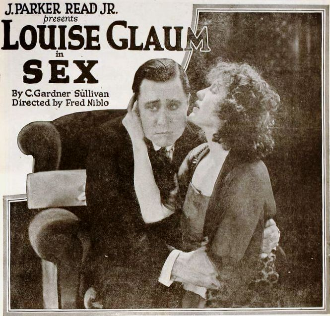 Advertisement for the American film Sex (1920) with Louise Glaum and William Conklin, on page 3791 of the May 1, 1920 Motion Picture News.